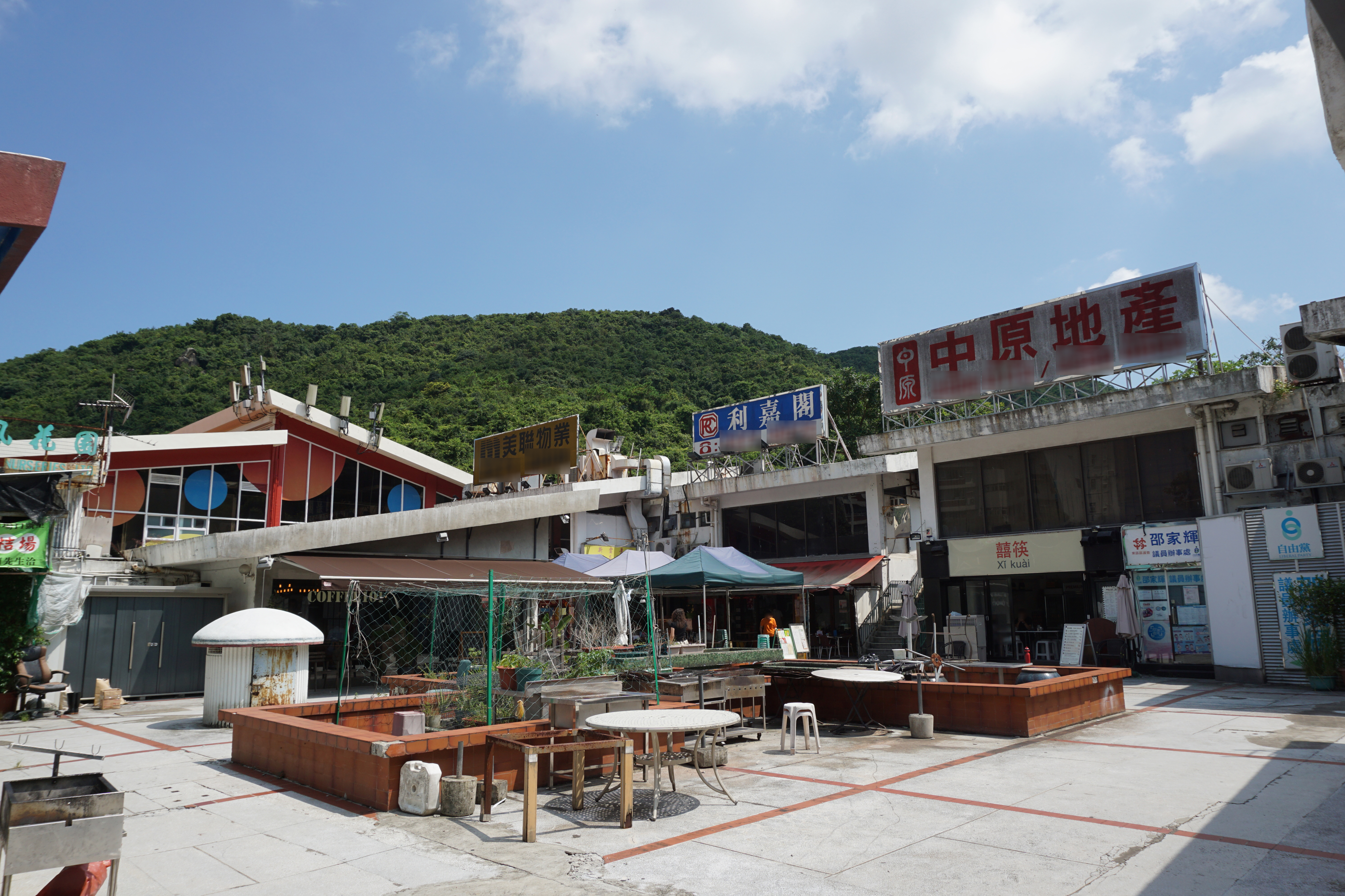 Shopping Centre in Braemar Hill, Hong Kong.